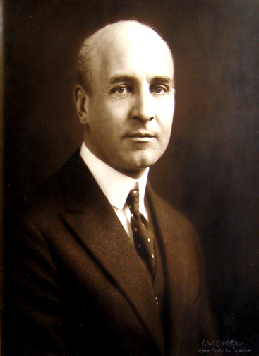 Carroll T. Bond, former Chief Judge of the Maryland Court of Appeals.